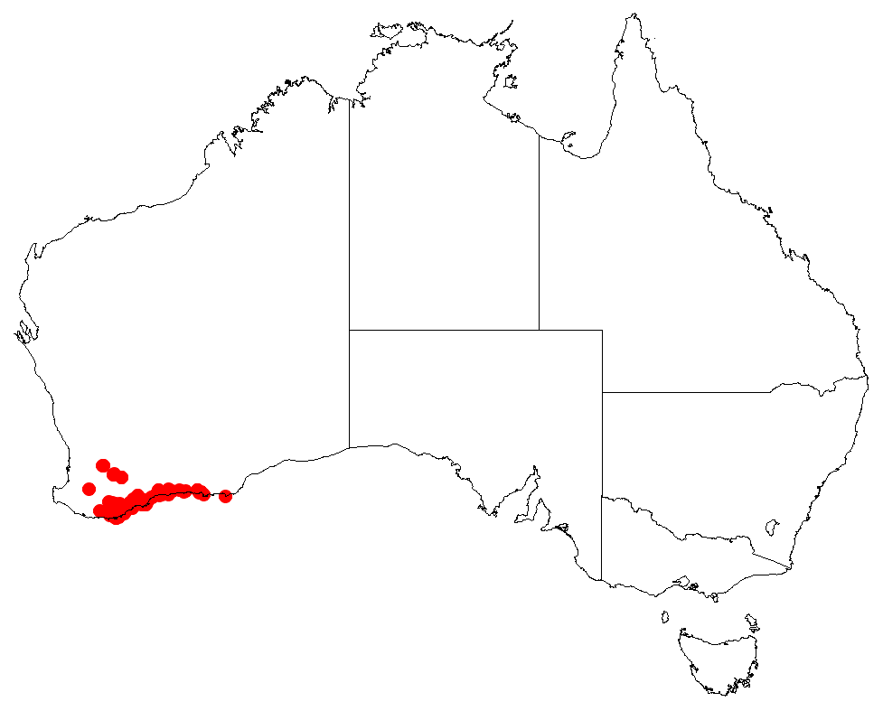 Hakea ferruginea Occurrence data downloaded from Australasian Virtual Herbarium on 22 November 2018 using